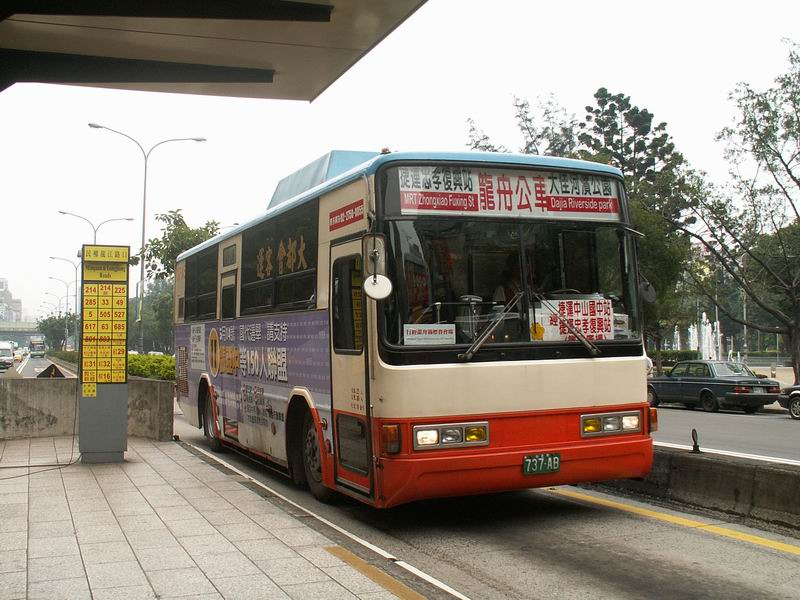 Metropolitan Transport Co., Ltd. Dragon Boat Bus 737-AB is commonly visible in Double Fifth Day.